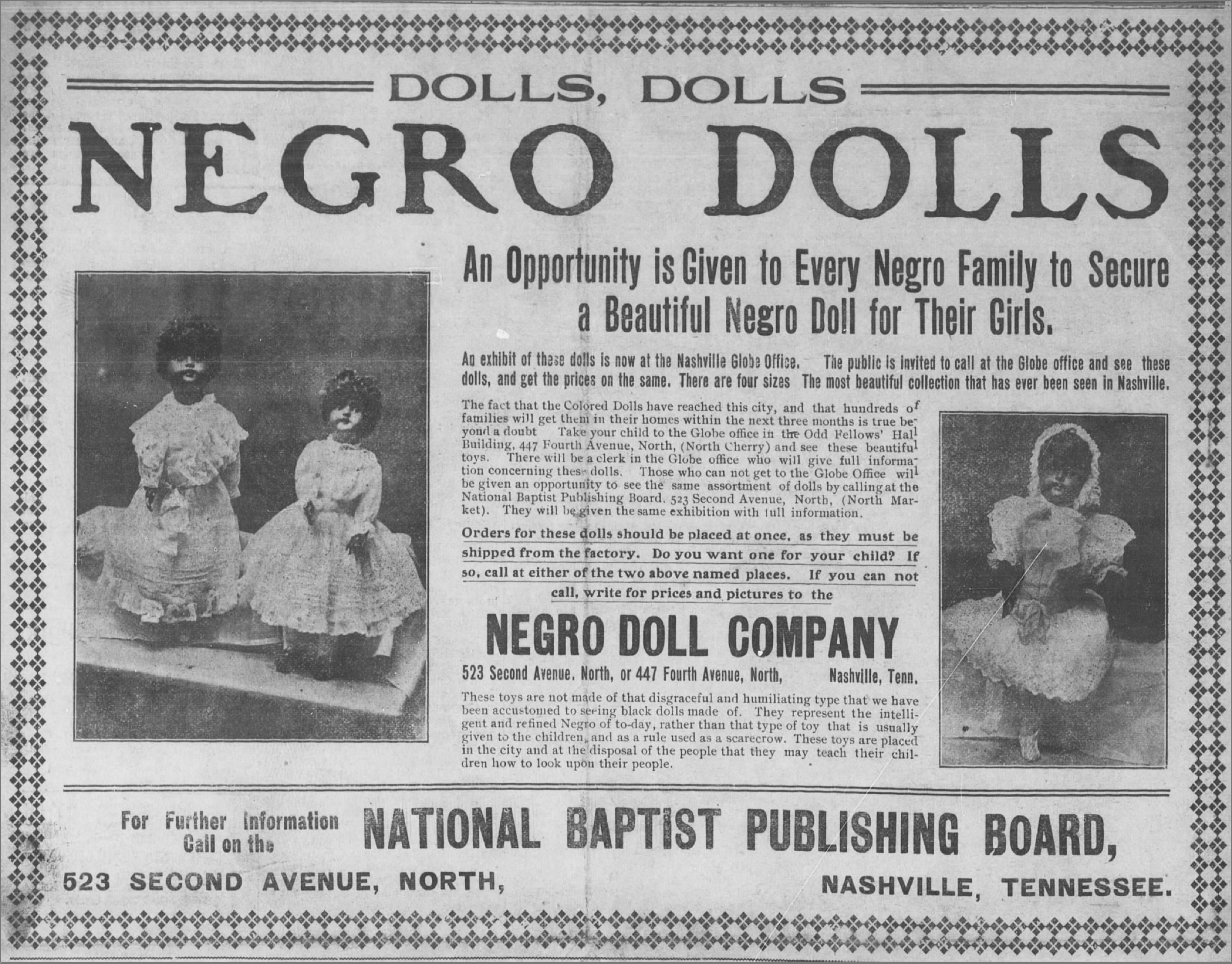 Advertisement for the Negro Doll Company from a 1908 issue of the Nashville Globe